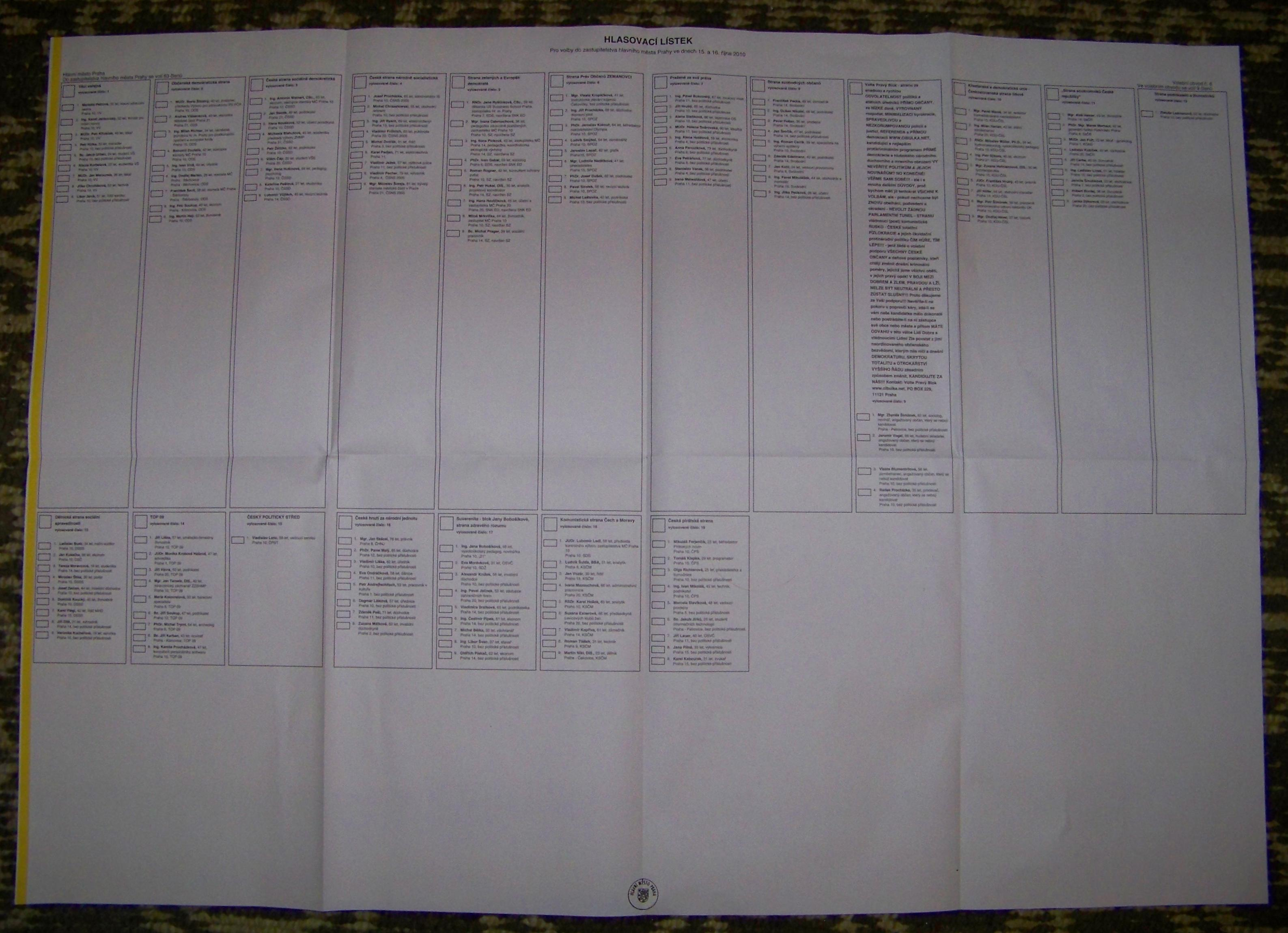 A voting paper for communal election, 2010, Czech Republic. City council of Prague, election district No 6.